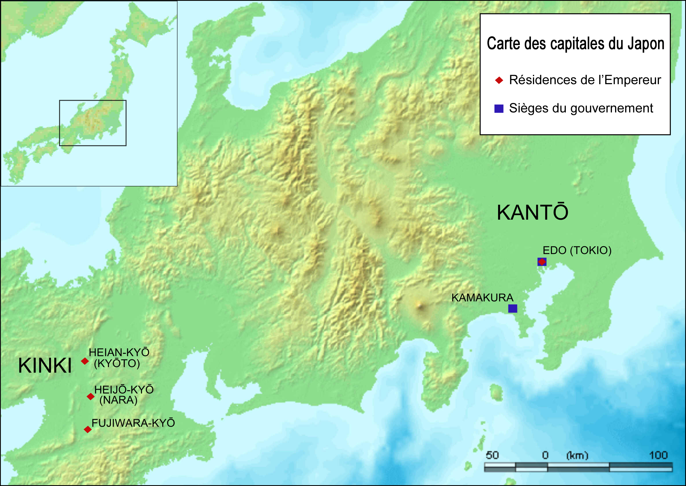 Map depicting the location of the most prominent capital cities in the history of Japan. Created from DEMIS Mapserver (public domain).